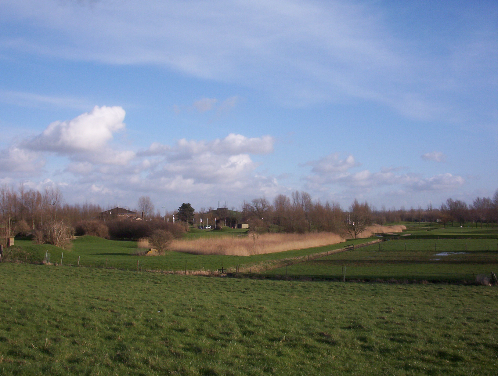 View from the Ringvaart dike of bunkers from Stelling van Amsterdam. In the distance is Big Spotters Hill, a manmade hill 42 meters high in the middle of the Haarlemmermeersebos park. This set of bunkers represented the first fore position of Fort Vijfhuizen. The spot is currently part of a golf course.